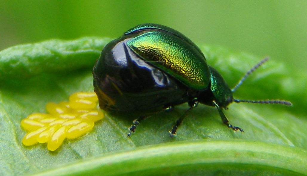 A female Gastrophysa viridula (Coleoptera: Chrysomelidae) laying eggs